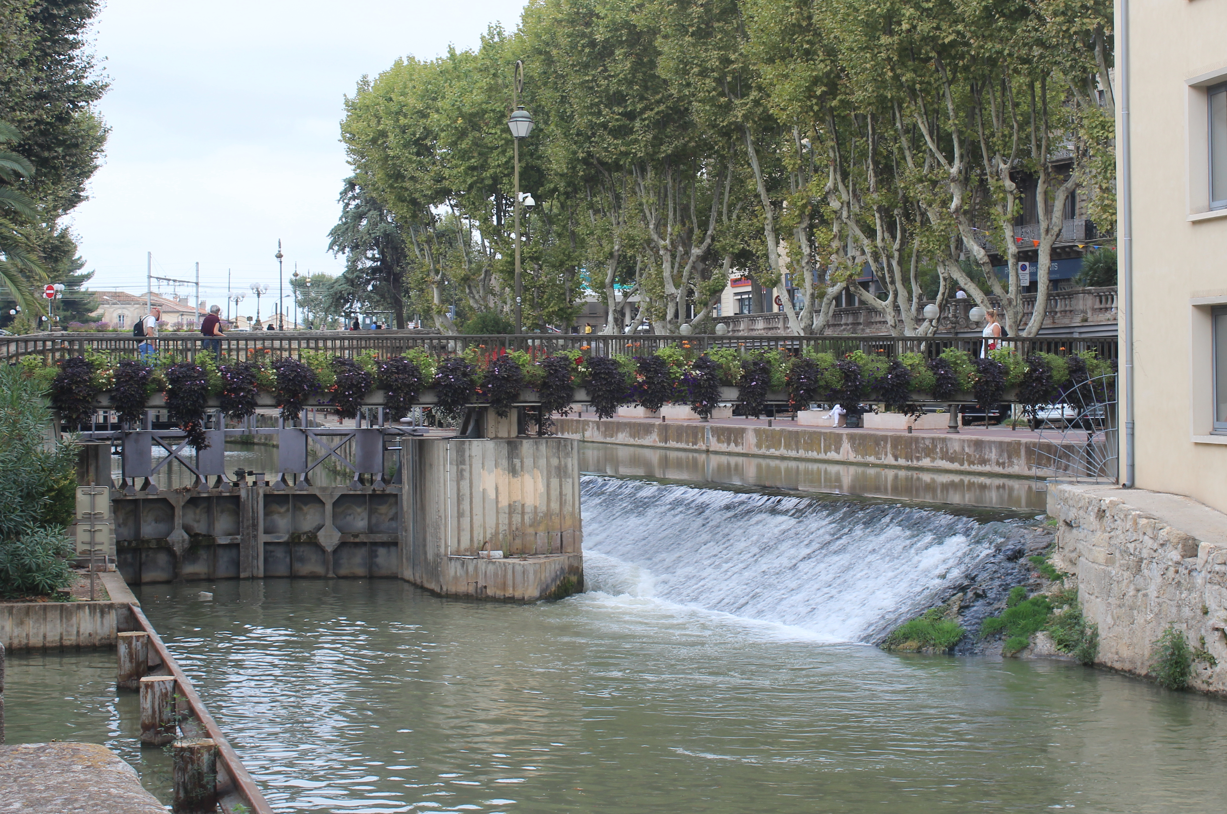 Narbonne Lock and associated weir on the Canal de la Robine opened to traffic in 1776.